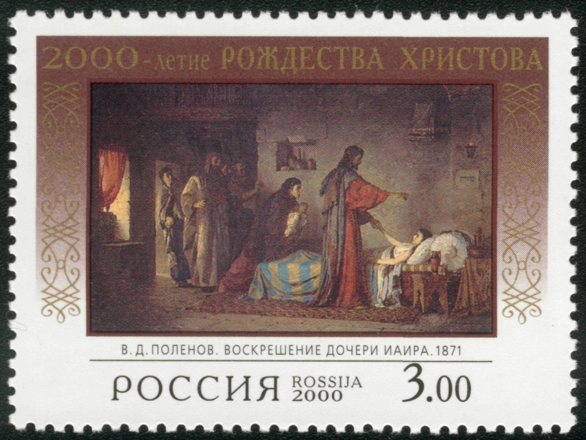 Raising of Jairus' Daughter by Wassilij Dimitriewitsch Polenow. Stamp of Russia, 2000, a commemorative issue for 2000th Anniversary of the Birth of Jesus